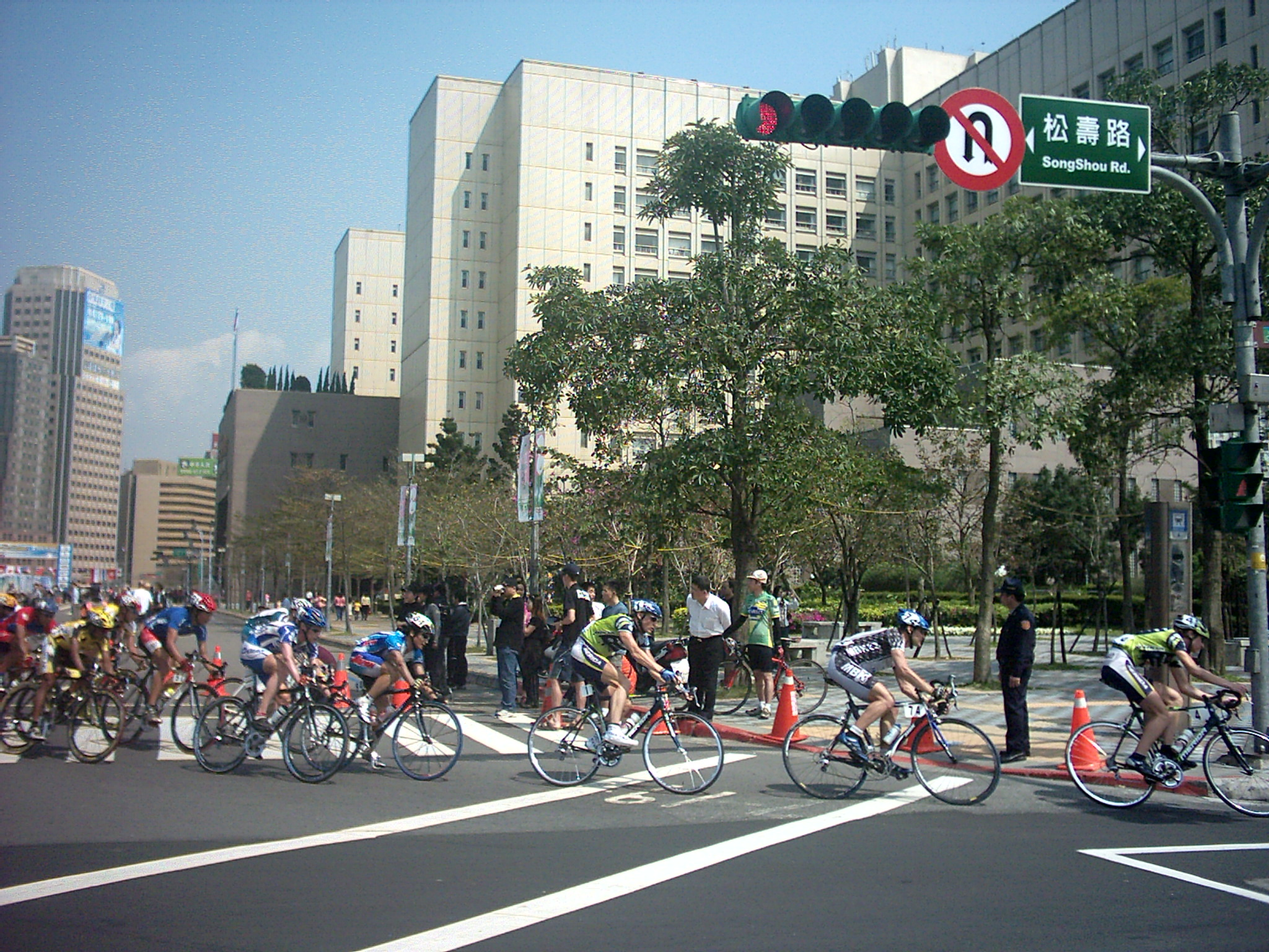 Without of the holding of Taipei International Elimination Road Race at 2005, Tour de Taiwan won't have a conjunction with Taipei International Cycle Show.